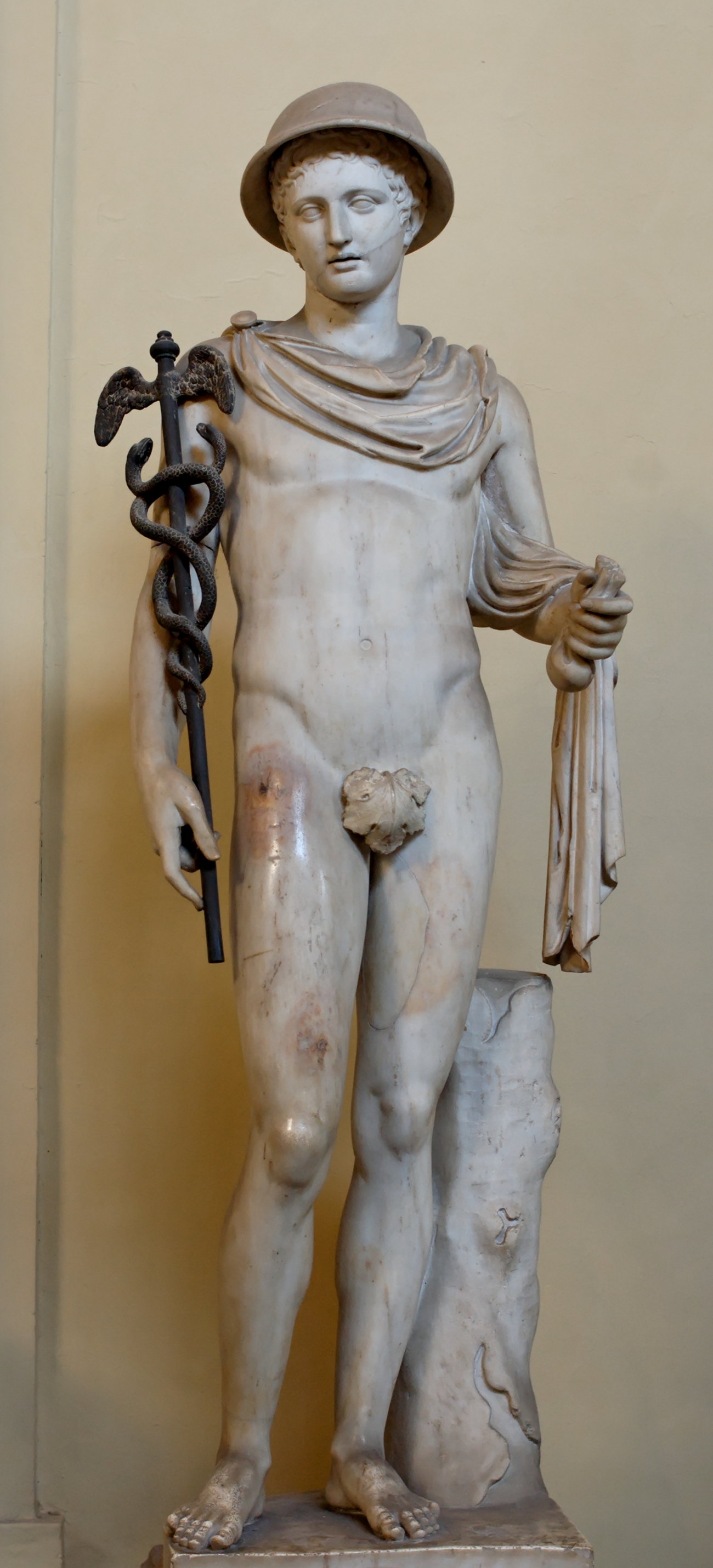 Statue of Hermes wearing the petasus (round hat), a voyager's cloak, the caduceus and a purse. Marble, Roman copy after a Greek original.